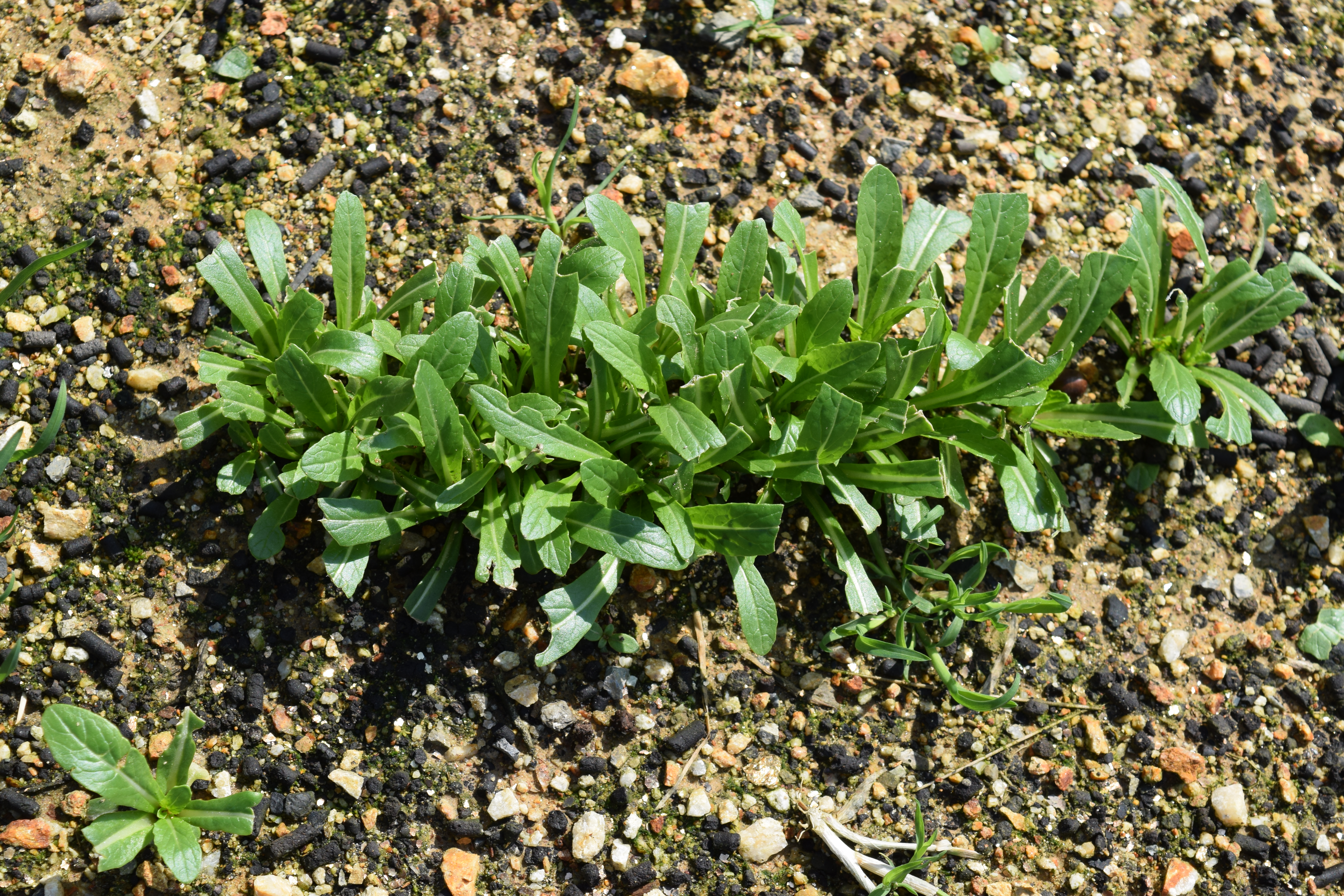 Mibuna (Brassica rapa var. laciniifolia subvar. oblanceolata)